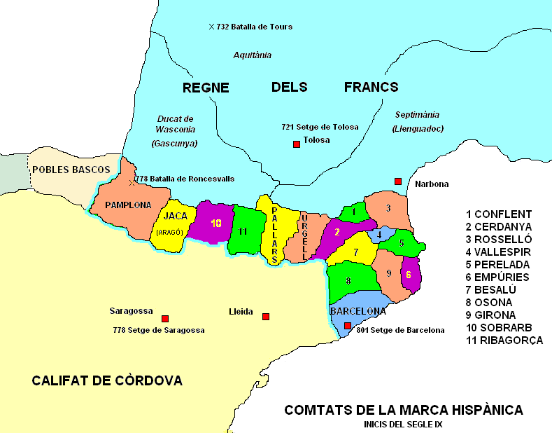 Hispanic March counties in the begginning of S. IX